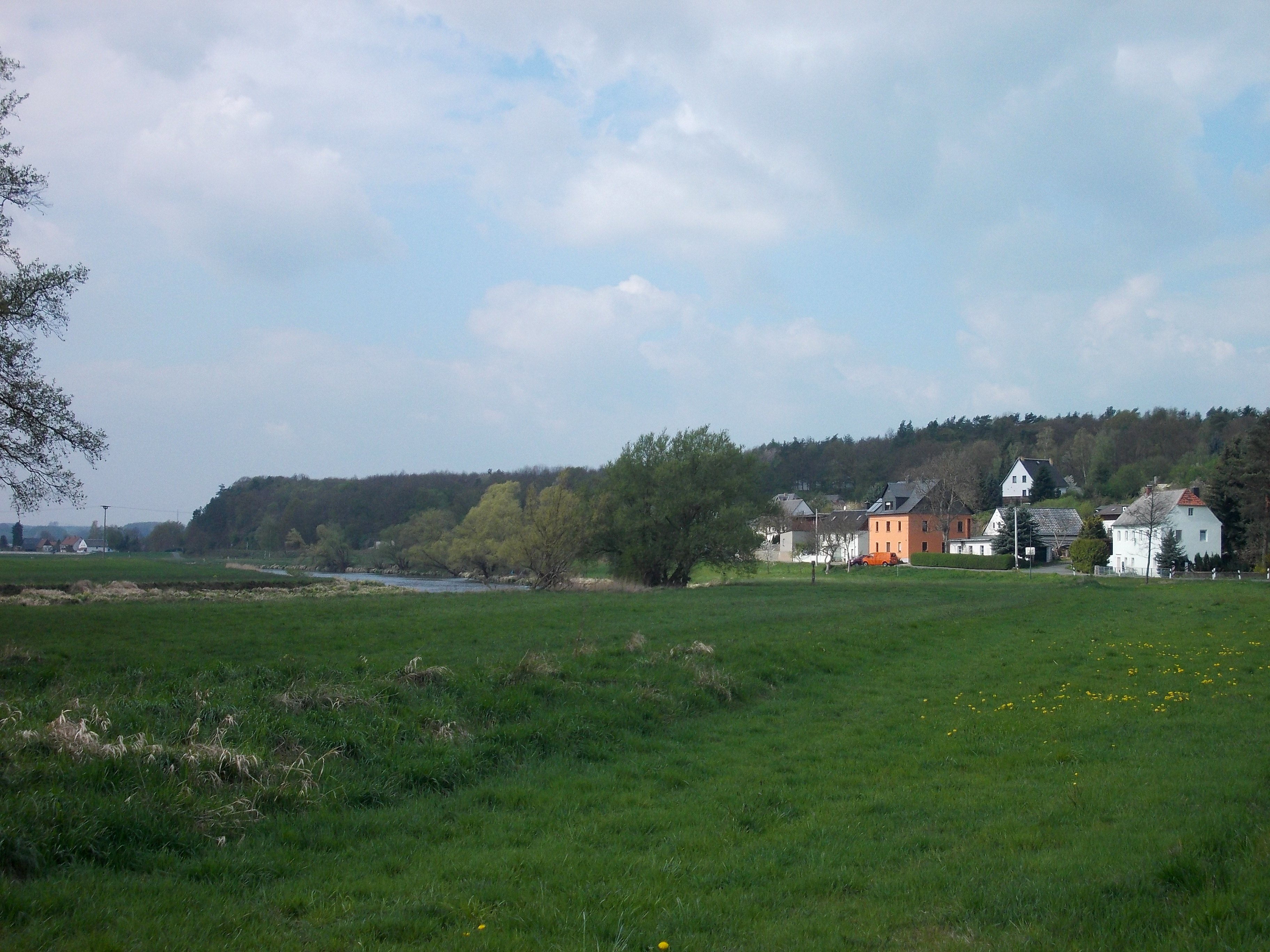 Freiberger Mulde river near Maaschwitz (Colditz, Leipzig district, Saxony)